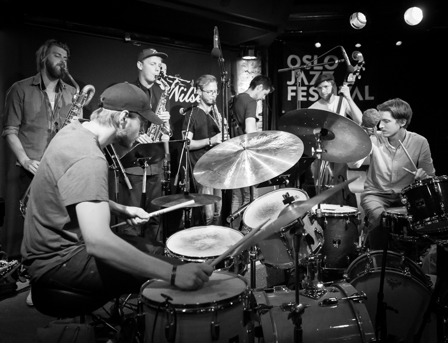 Megalodon Collective at the stage of Herr Nilsen. The concert was part of the Oslo Jazz Festival in Norway and took place on 16. August 2016. Lineup: Karl «Kalle» Nyberg (saxophone) Martin Myhre Olsen (saxophone) Petter Kraft (saxophone) Karl Bjorå (guitar) Aaron Mandelmann (bass guitar) Andreas Winther (drums) Henrik Lødøen (drums)